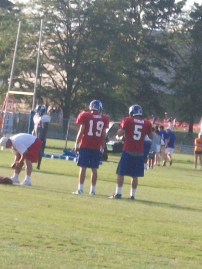 Jim Sorgi and Rhett Bomar